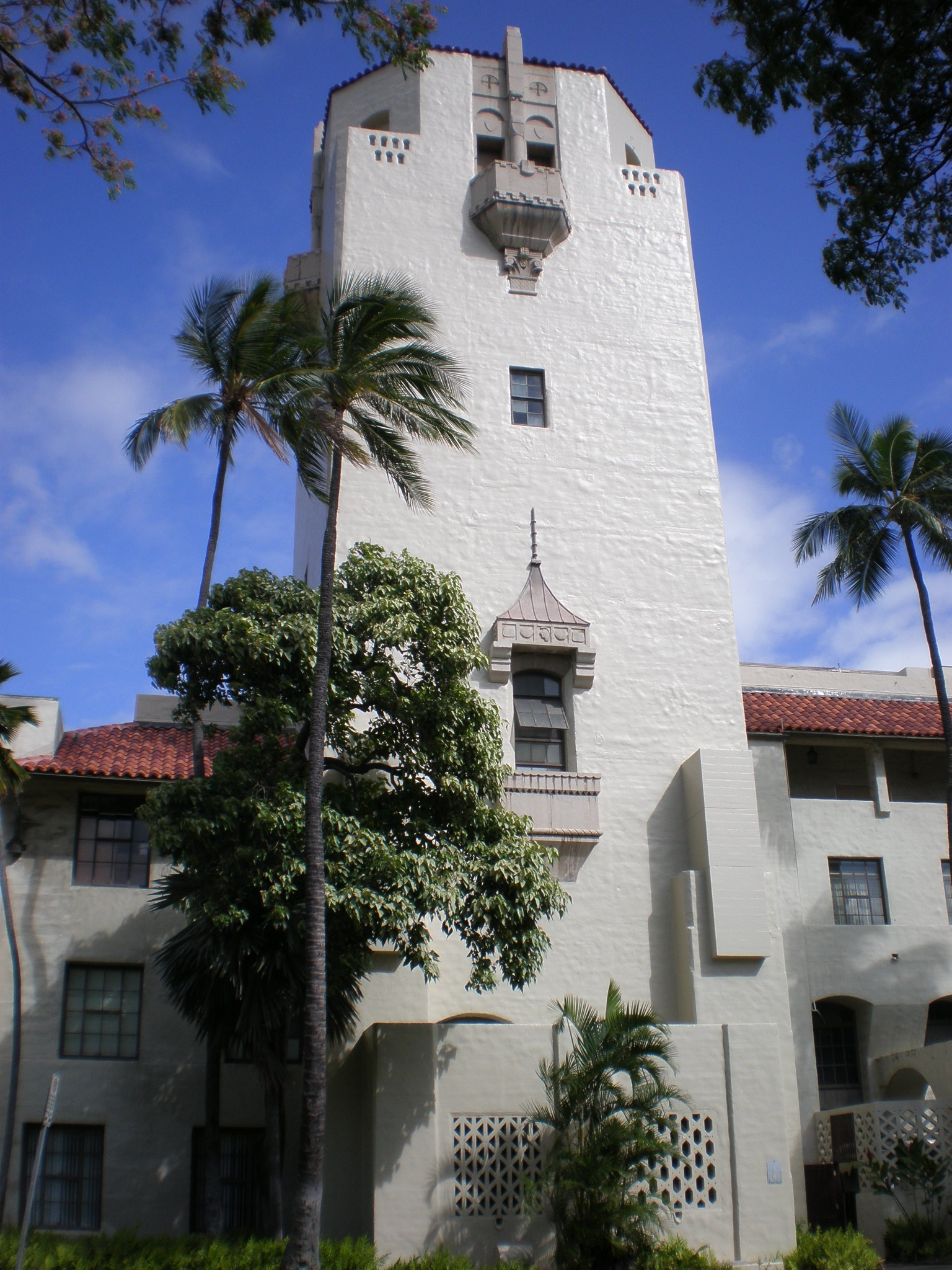 Tower of Honolulu Hale, the City Hall of Honolulu, Hawaii